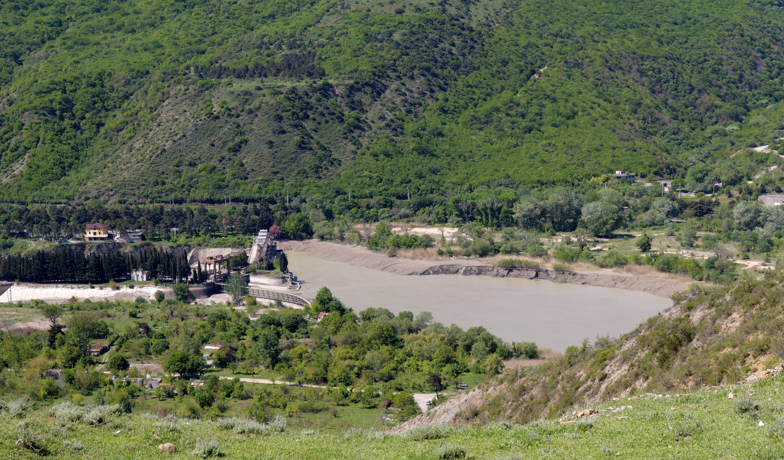 Georgia. Zemo Avchala Dam